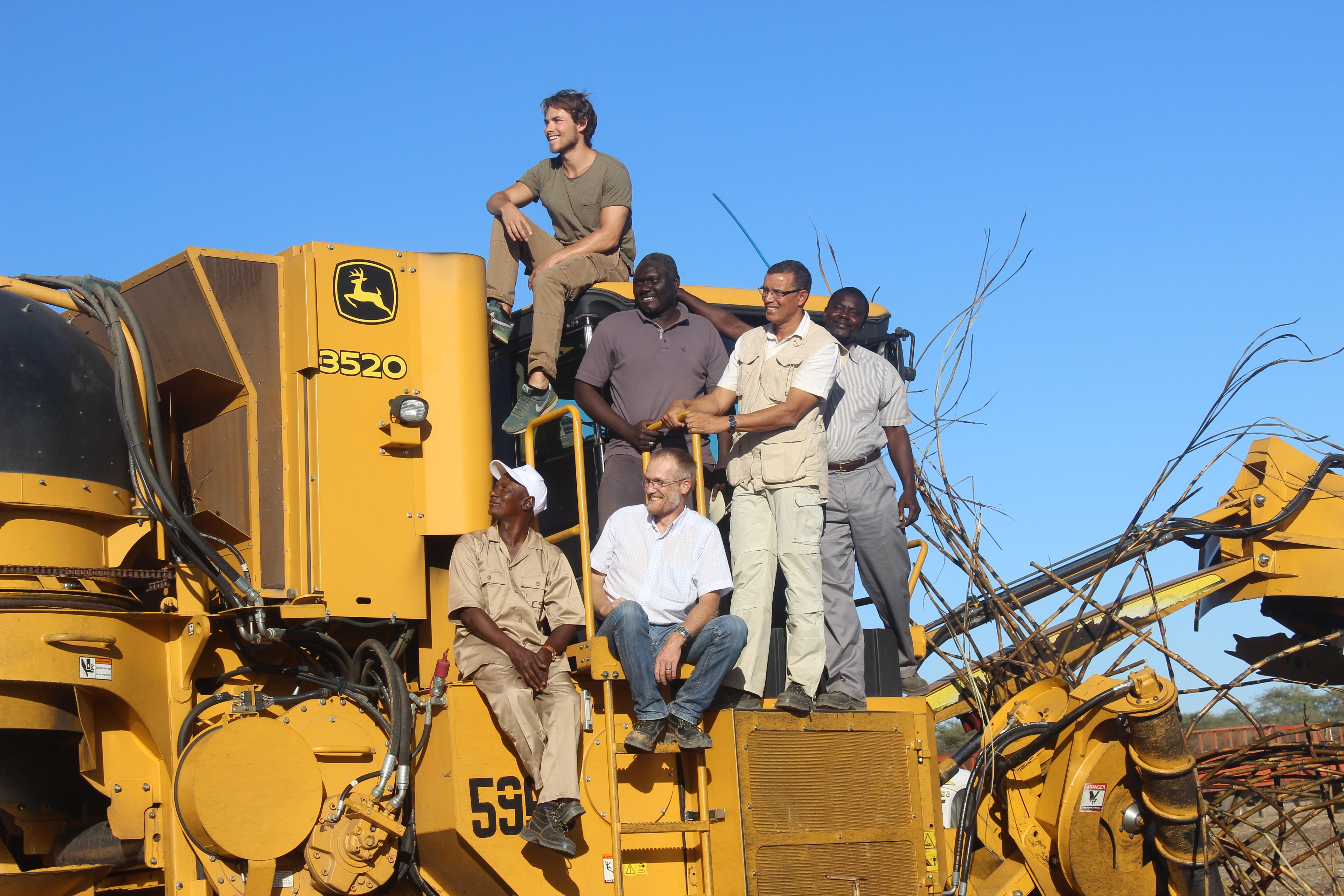 Nachson Mimran dans un champ de canne à sucre au Sénégal avec l'équipe technique.